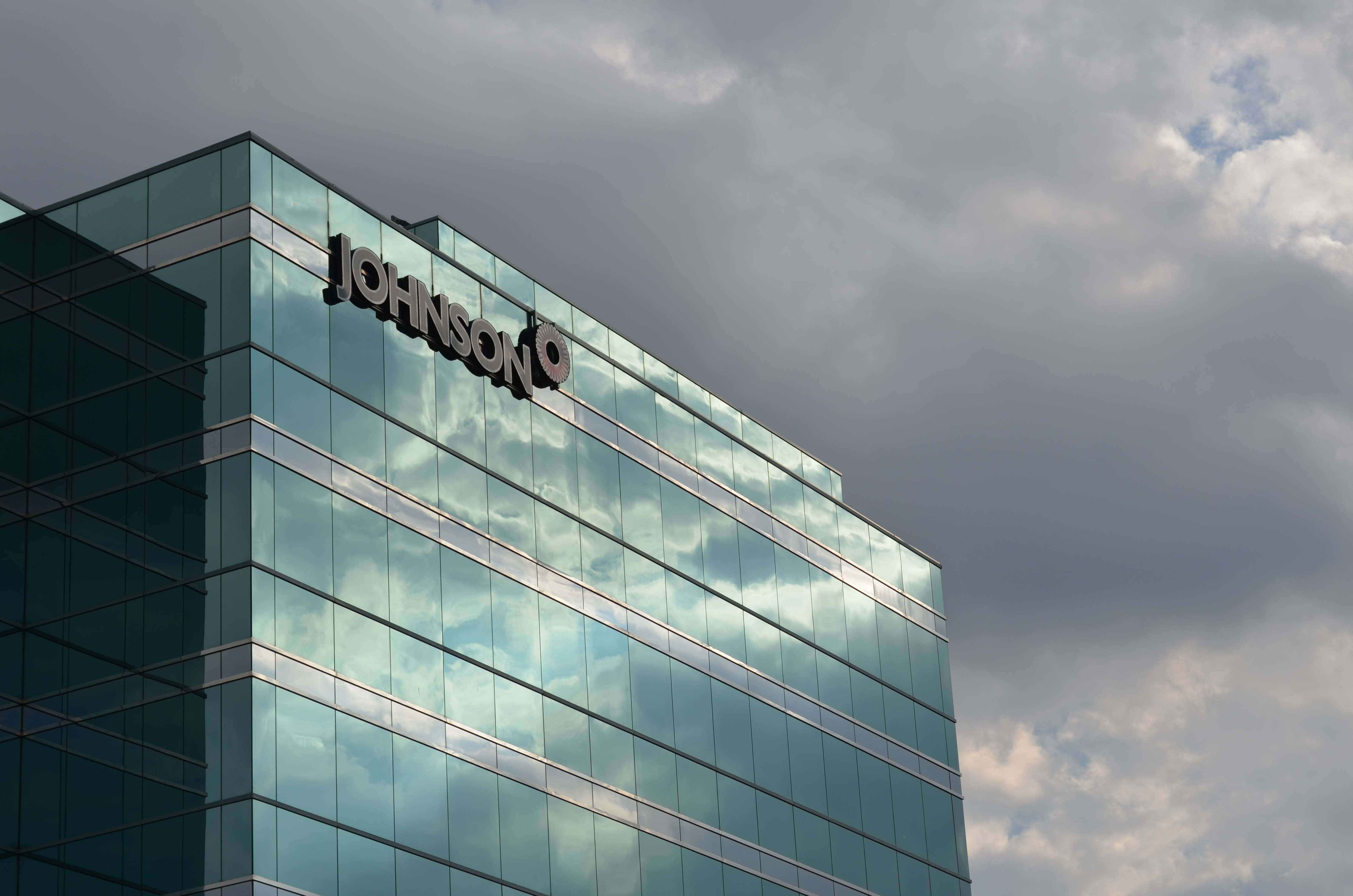 Johnson Inc. (RSA Group)1595 - 16th Avenue, Richmond Hill, Ontario, Canada